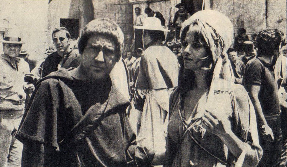 Italian actors Alberto Sordi and Claudia Cardinale in Rome during the filming of Nell'anno del Signore